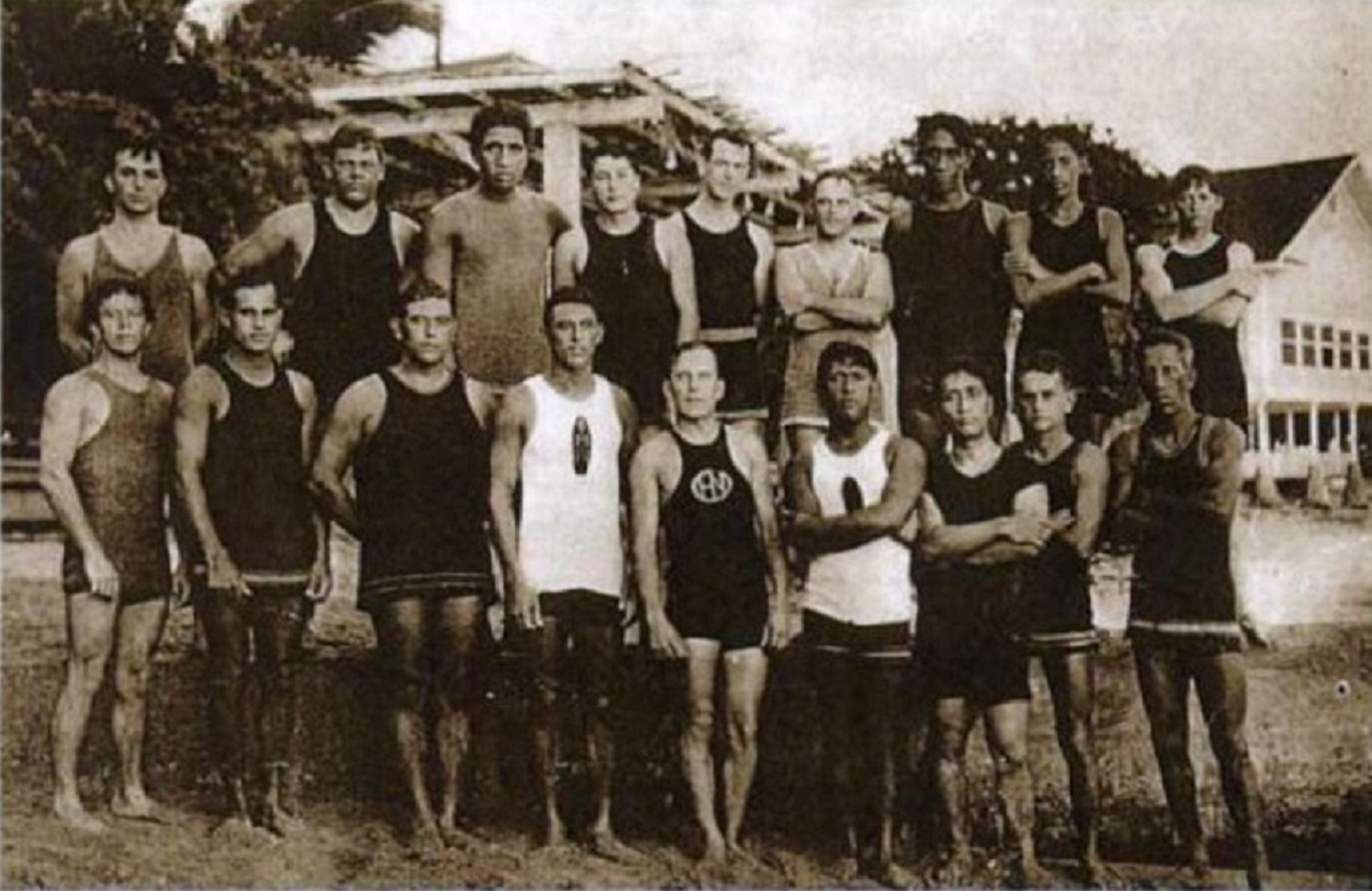 The Hui Nalu, Club of the Waves, founded in 1908 by Native Hawaiians in defiance to their exclusion from haole (Caucasian) The Outrigger Canoe and Surf Clubs. Duke Kahanamoku (back row, third from right).